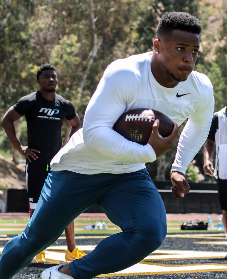 Saquon Barkley 2018 (background man removed)